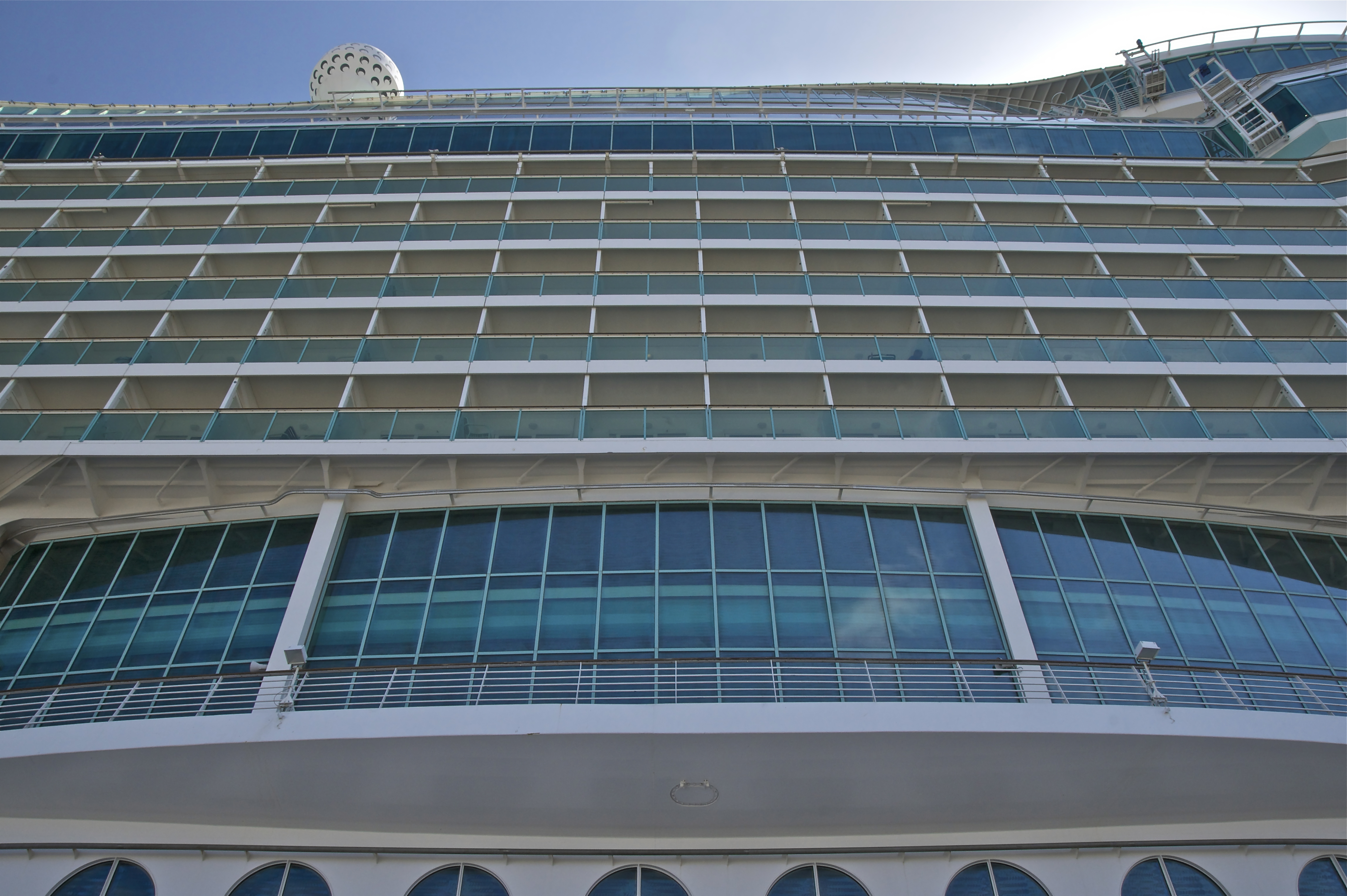 Not a building, but the decks of a ship, the "Mariner of the Seas", from below !